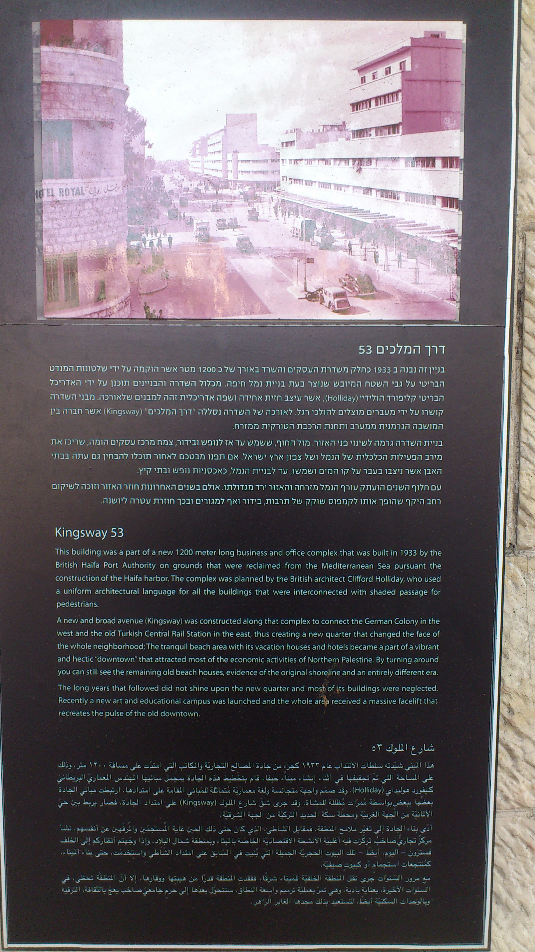 Ha'Atzma'ut Street